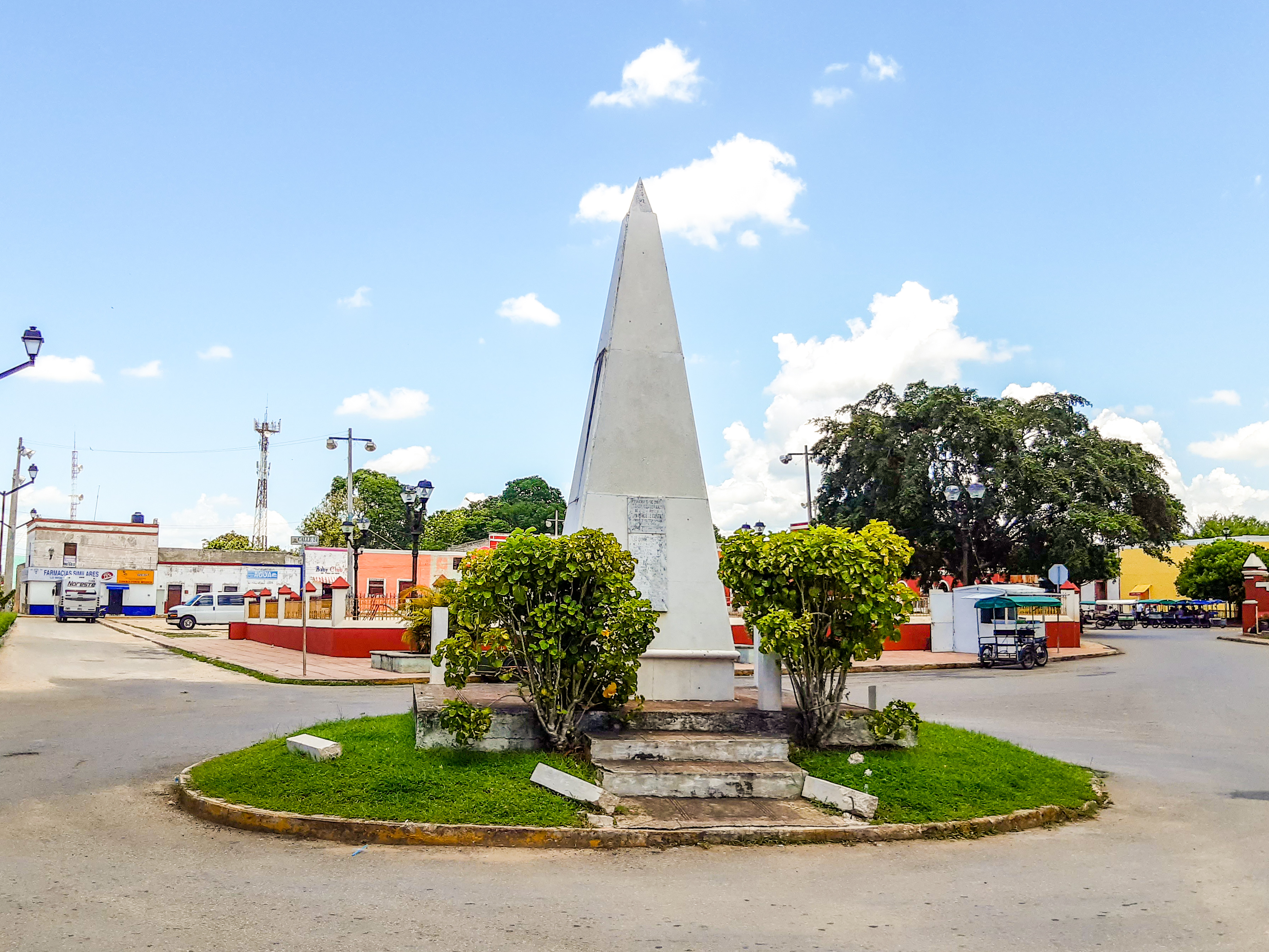 Monument in Espita, Yucatan.